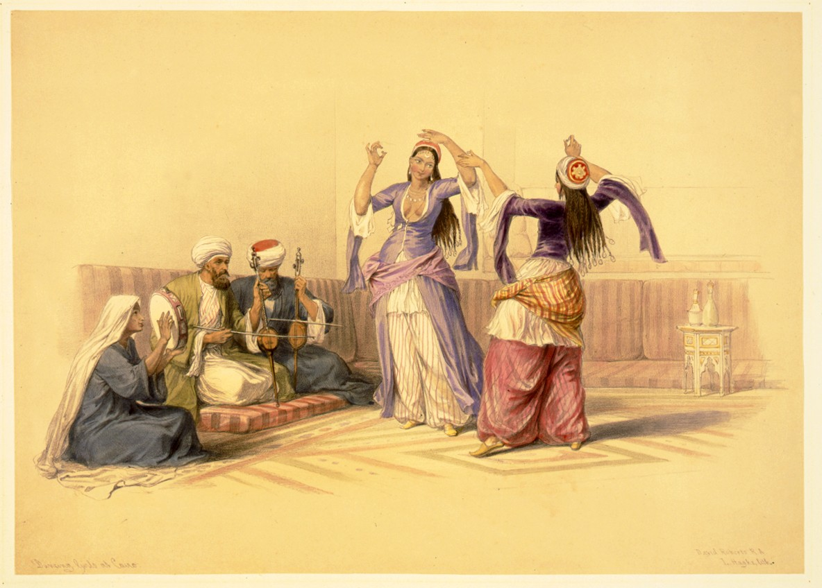 Picture of a print from David Roberts' Egypt & Nubia, issued between 1845 and 1849.